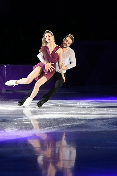 Gala exhibition at the 2018 Winter Olympics